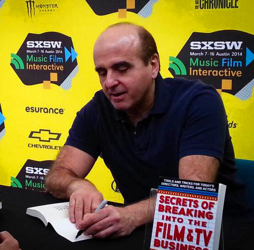 Filmmaker/Producer Dean Silvers at SXSW signs his bestselling book, "Secrets of Breaking Into the Film and TV Business: Tools and Tricks for Today's Directors, Writers, and Actors"